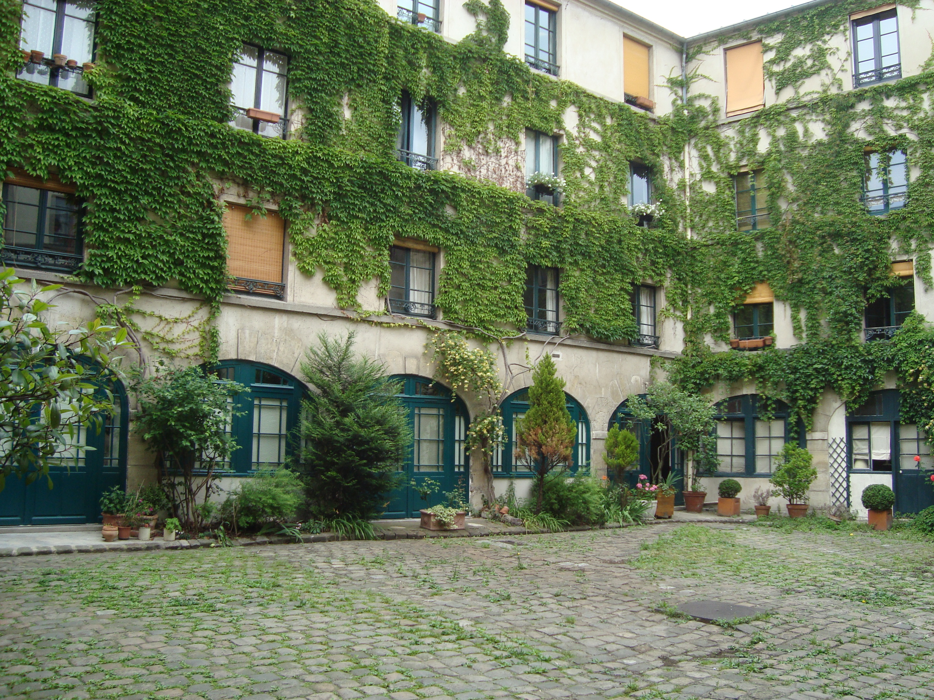 The courtyard of the couvent des Filles-Anglaises in Paris